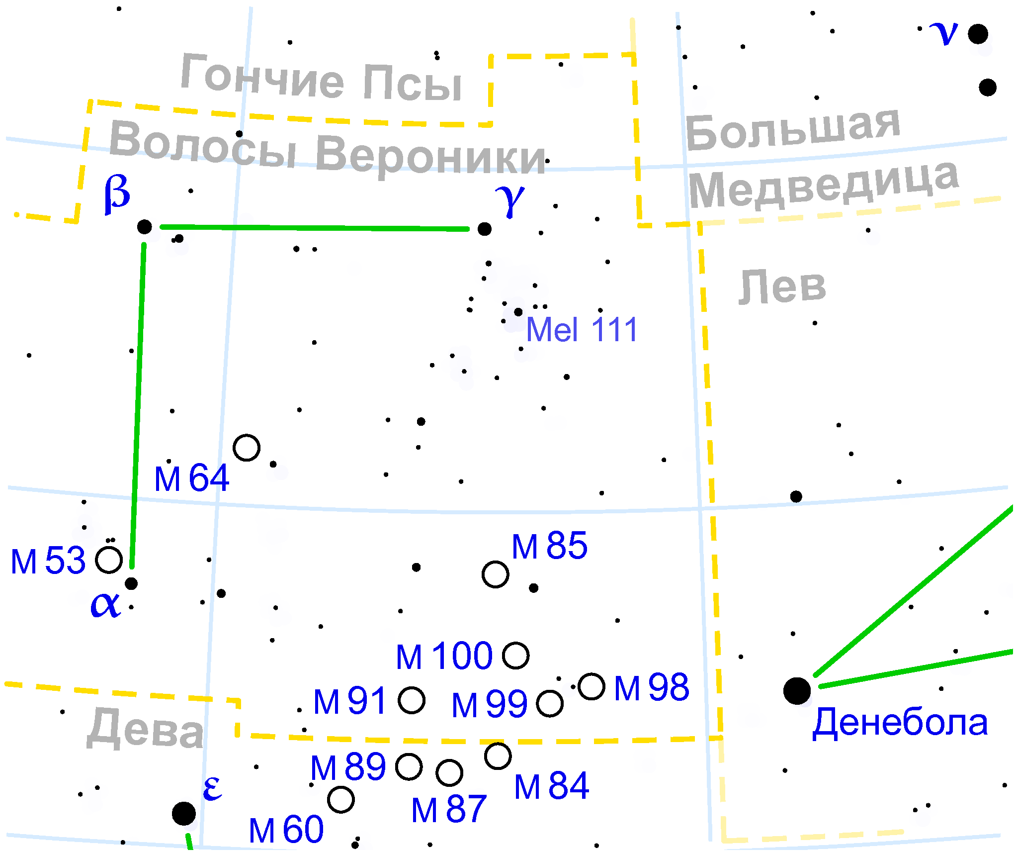 Coma Berenices constellation map in Russian